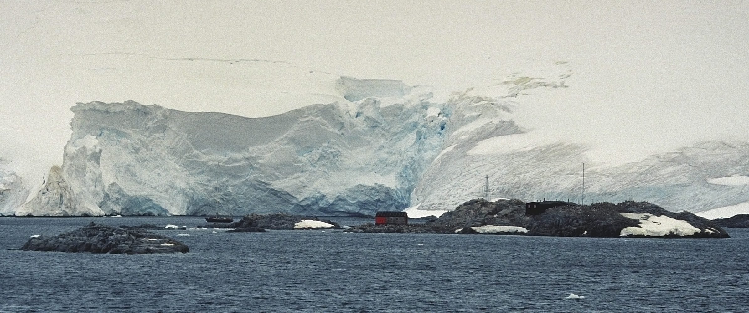 Port Lockroy, Antarctica